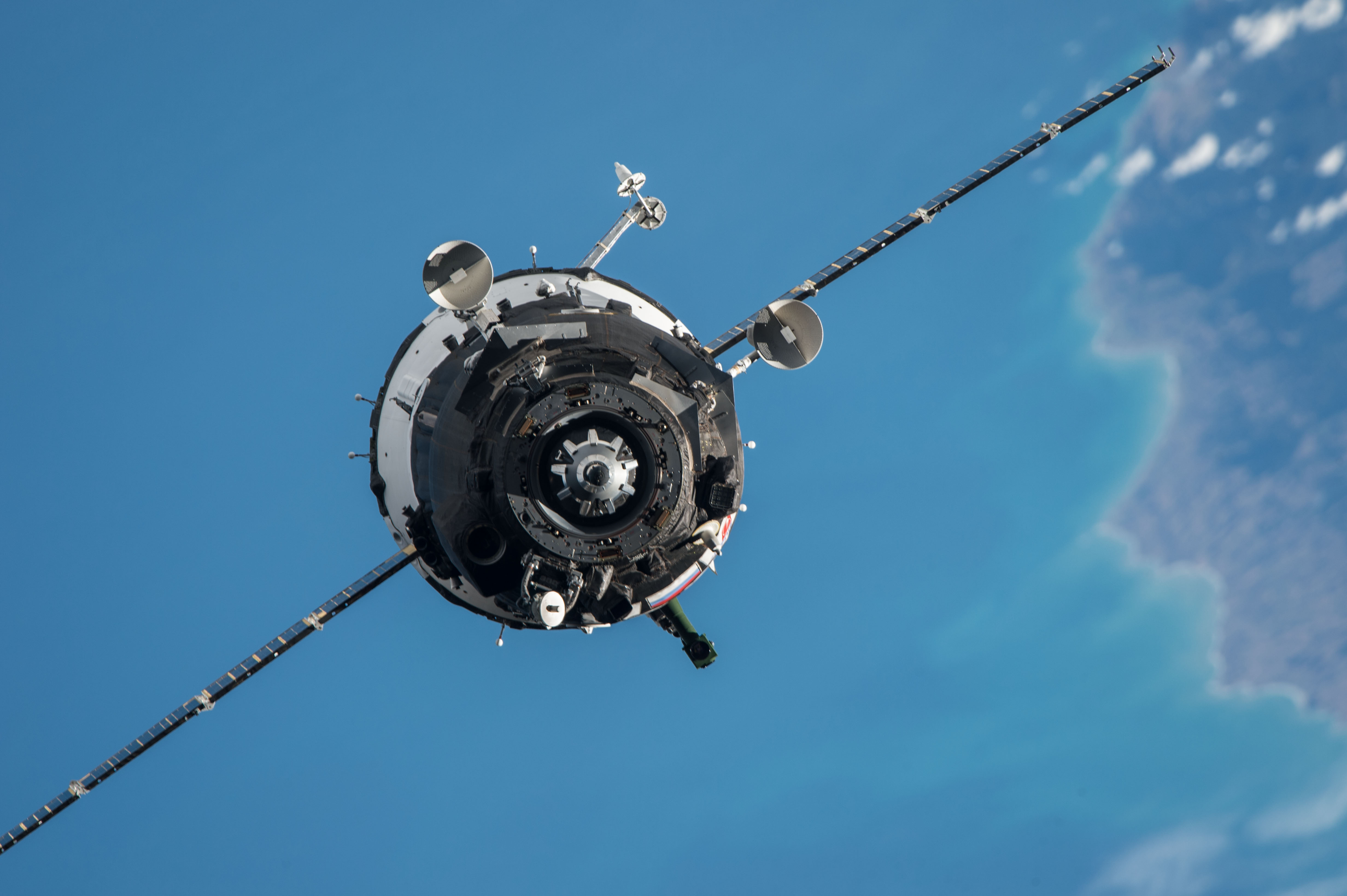 NASA astronaut Tim Kopra tweeted this image of the Soyuz out with the comment: "The 46S #Soyuz crew on the approach! @Space_Station".